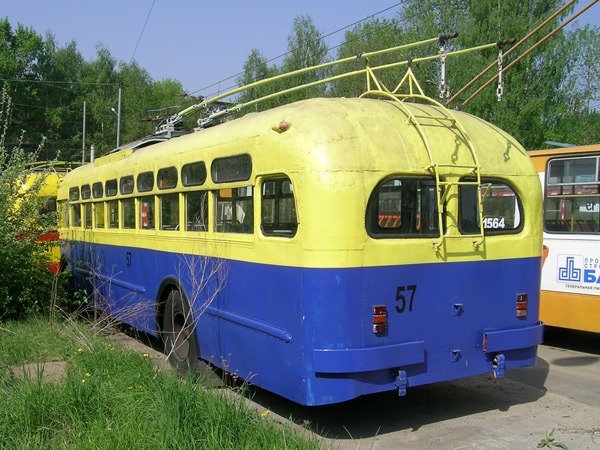 The view to rear end of MTB-82 trolleybus from the left side